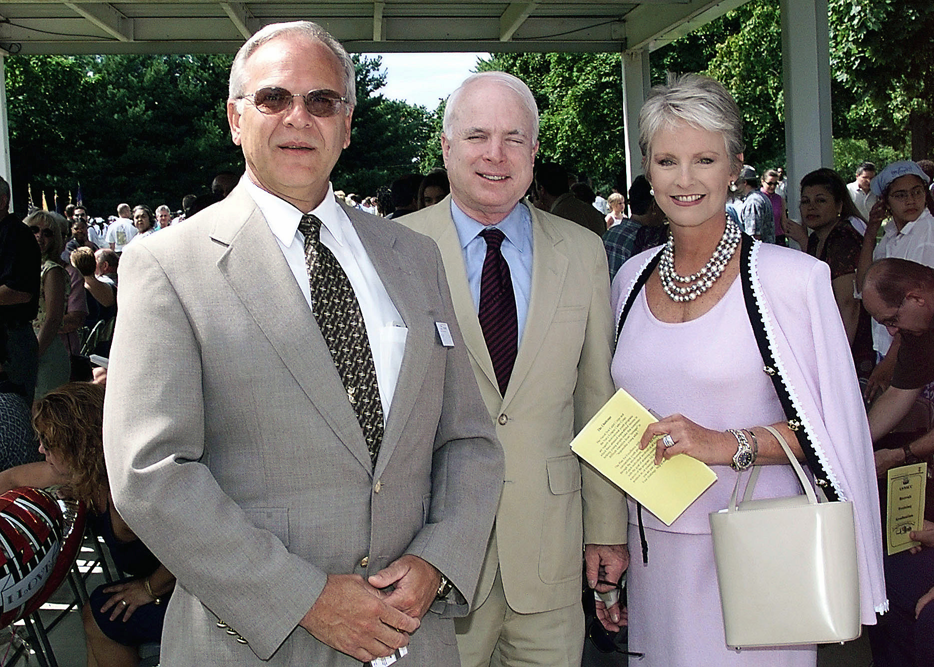 U.S. Senator John McCain III, (center), (R-Arizona) his wife Cindy McCain and Mr. Robert Lichtneger, Garrison Manager, Fort Dix, New Jersey pose for a photograph during the Graduation Ceremony for the Naval Sea Cadet Corps summer program. Location: FORT DIX, NEW JERSEY (NJ) UNITED STATES OF AMERICA (USA)